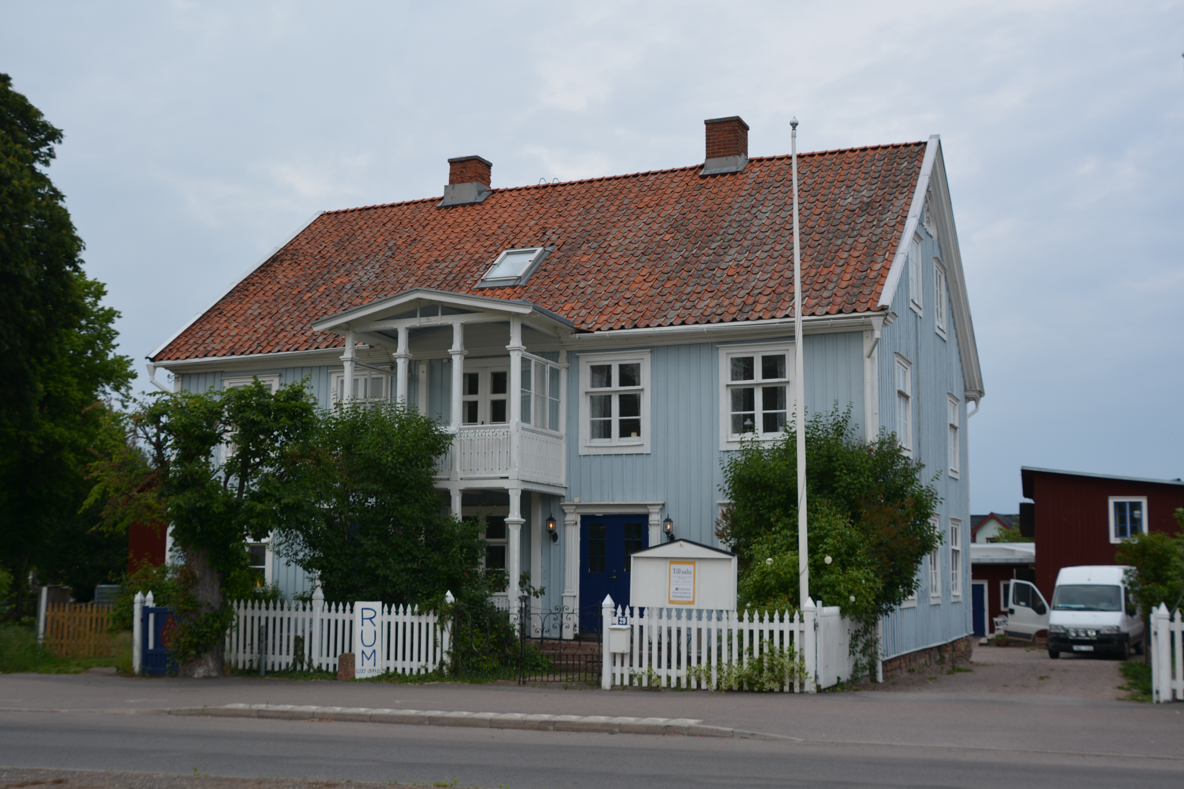 Lilla Nyborg, Storgatan i Borgholm, Blåklinten 9 RAÄ 21300000012293